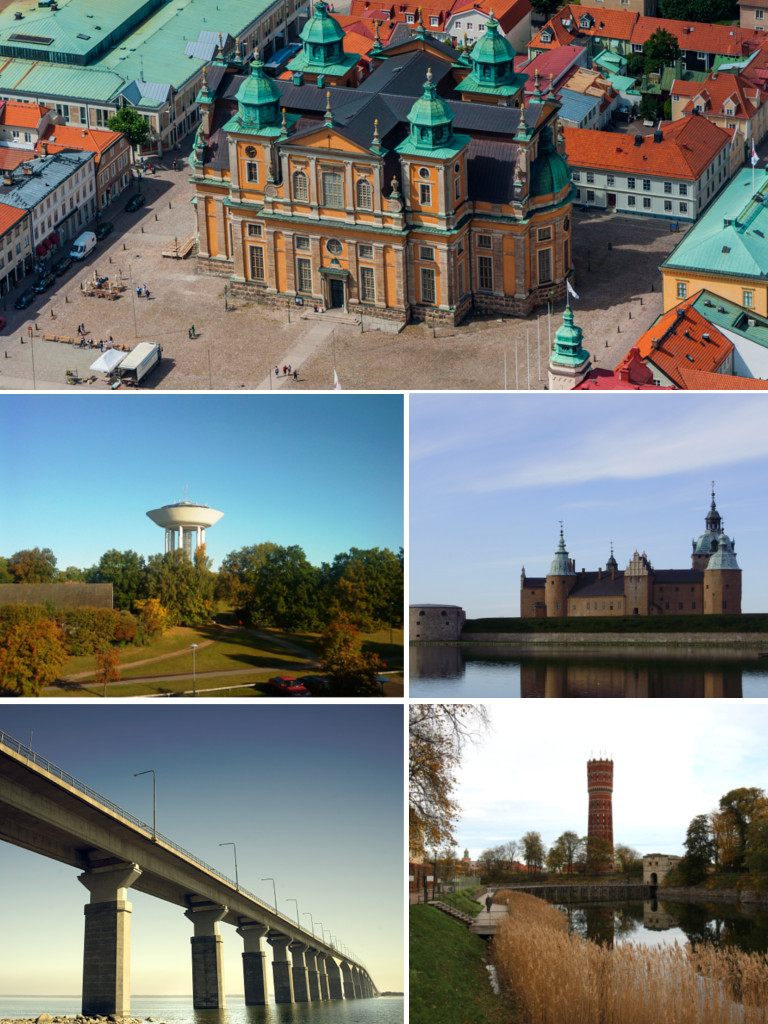 Collage from Kalmar